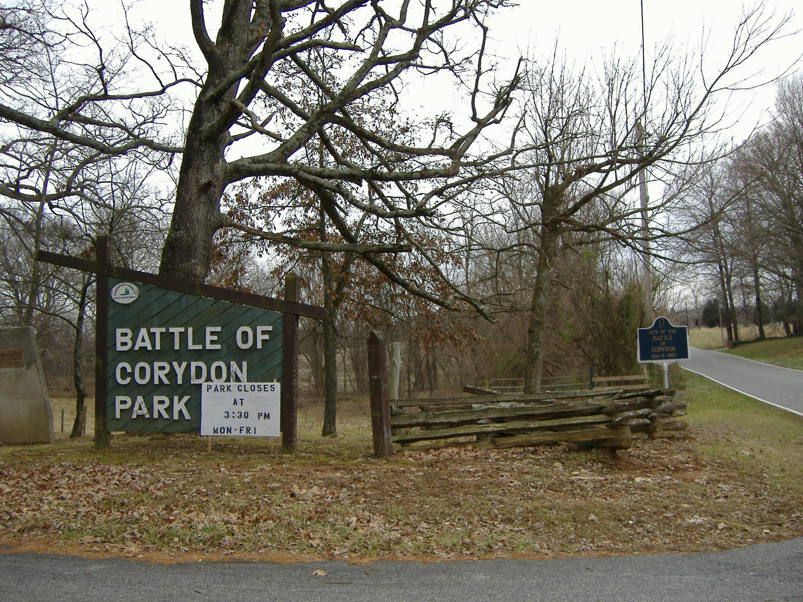 Entrance of the Corydon Battlefield, just south of Corydon, Indiana.